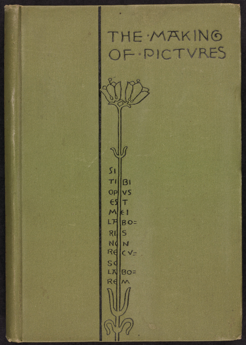 File name: 06_04_000251Title: WHITMAN(1886) The making of picturesDate issued: 1886Genre: Book coversNotes: Whitman, Sarah (Author)Collection: Sarah Wyman Whitman BindingsLocation: Boston Public Library, Special CollectionsRights: No known copyright restrictions.